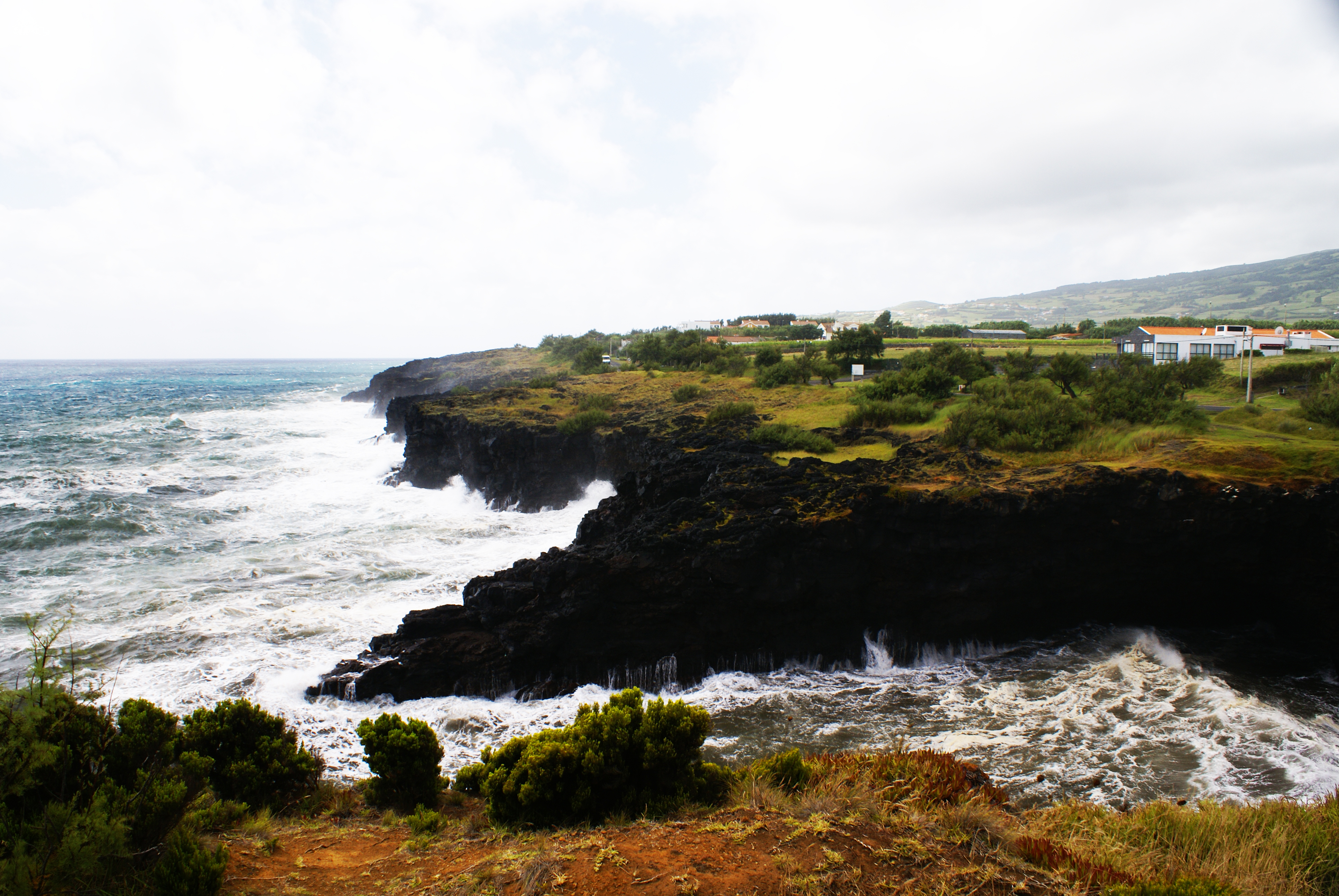 Lajinha lookout, Lajinha, Feteira, Horta, Faial (Azores), Portugal